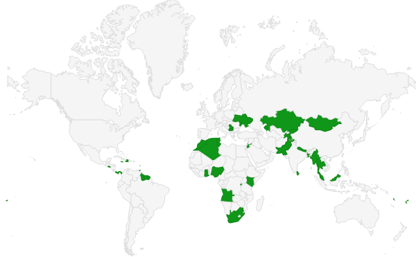 Wikipedia Zero countries as of May 2016